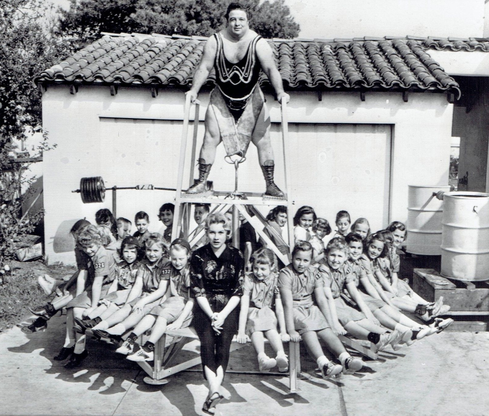 1957 Wire Photo bodybuilder weightlifter Paul Anderson to lift up 30 girl scouts